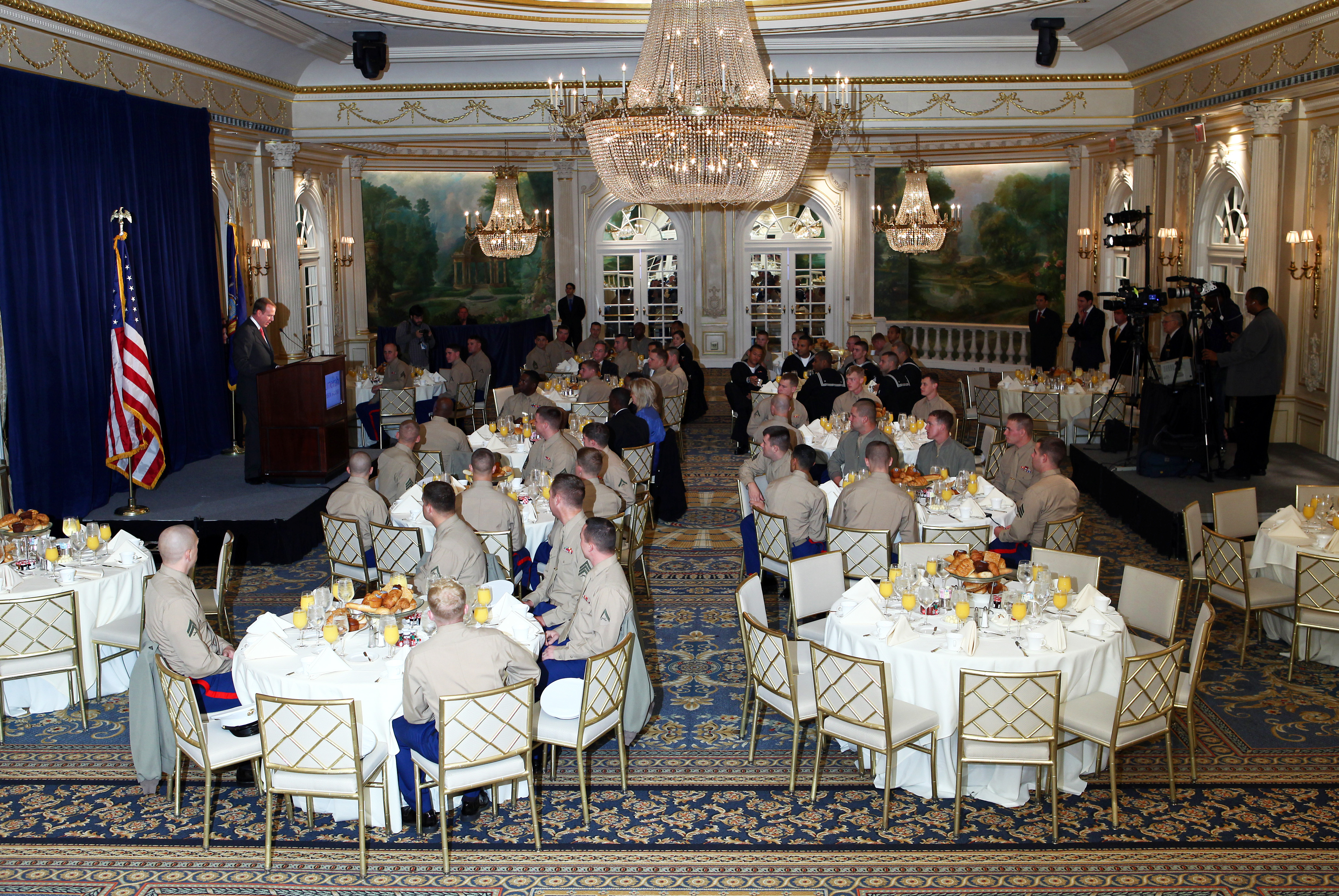 NEW YORK -- Rudy Giuliani, former New York City mayor and presidential candidate, gave the keynote speech during a Nov. 8 brunch at the Jumeriah Essex House in honor of the USS New York sailors and Special Purpose Marine Air Ground Task Force 26 Marines who embarked on the ship for her commissioning ceremony Nov. 11.